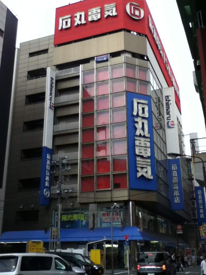 Ishimaru Electrical Appliance Store in Akihabara.